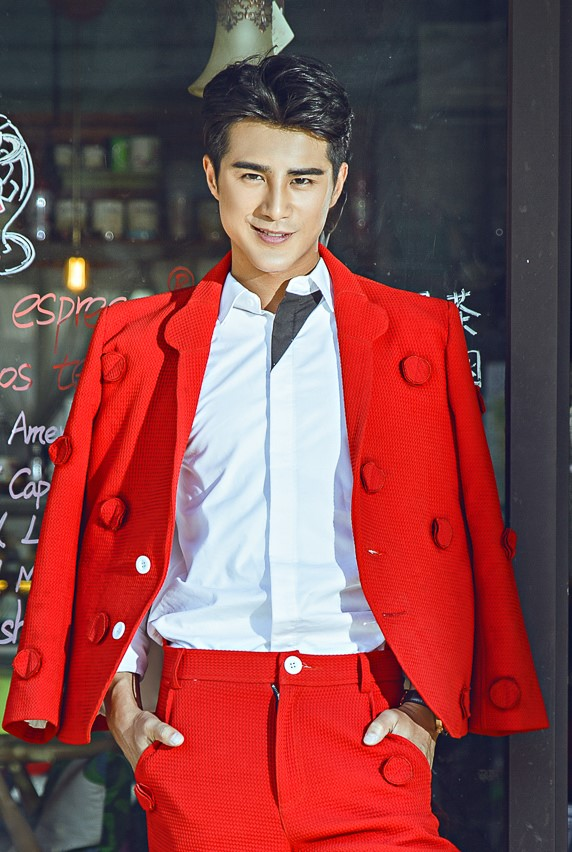 Jo Jiang in 2015 This is a retouched picture, which means that it has been digitally altered from its original version. Modifications: cropped. The original can be viewed here: Jo Jiang 01.jpg. Modifications made by LimSoo-jung.